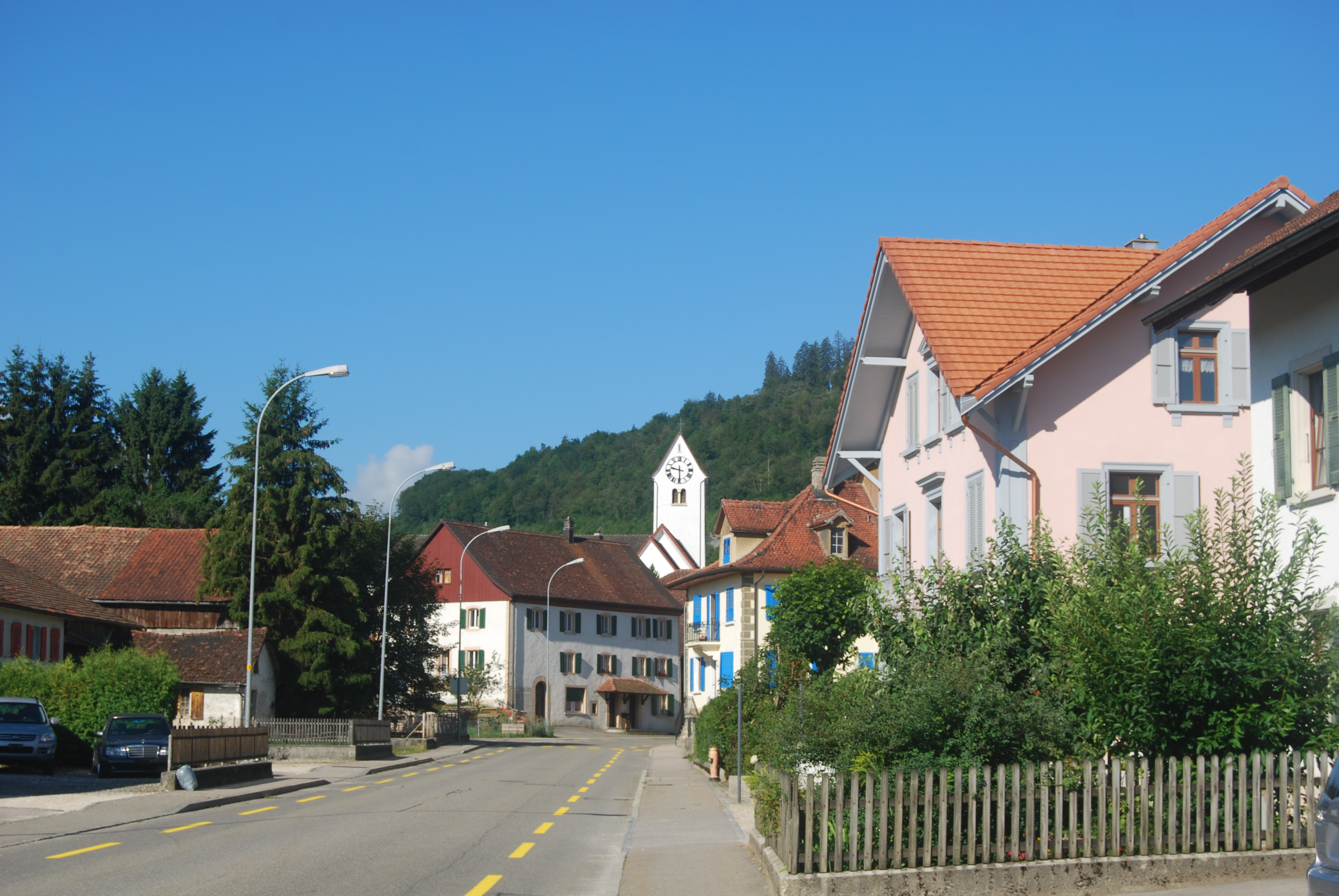 Village center with view to the church of Glovelier, canton of Jura, Switzerland